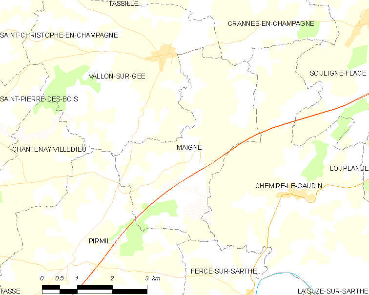 Map of French municipality